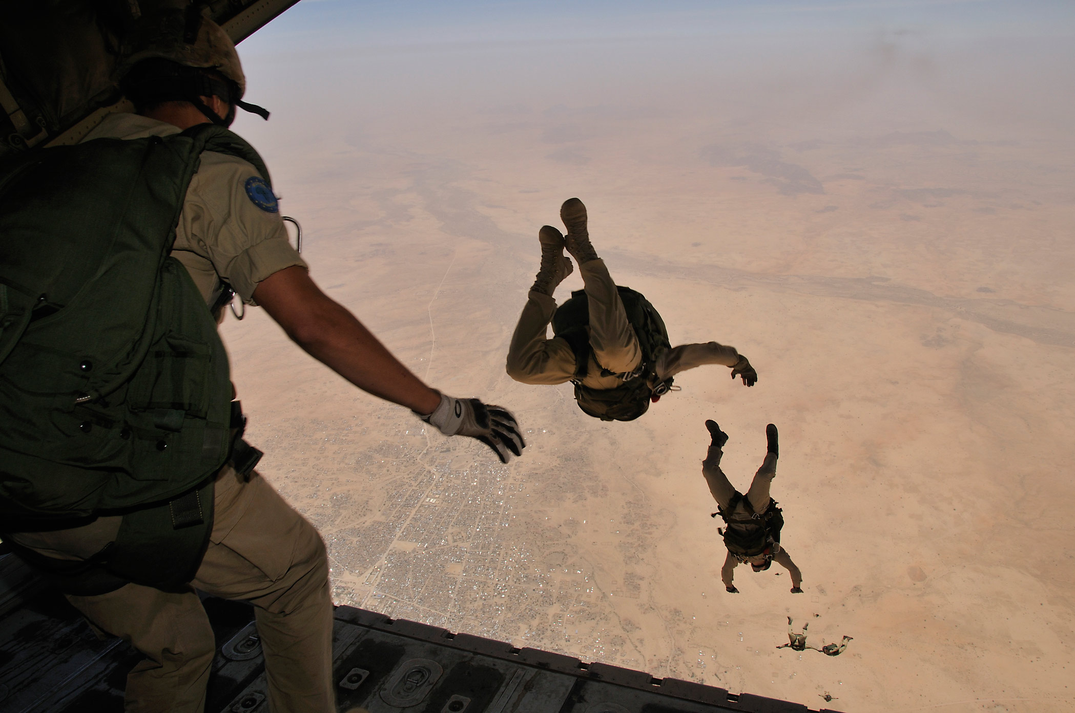 Jagdkommando Skydiver